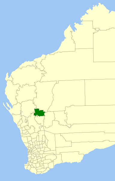 Location of the Local Government Area in Western Australia